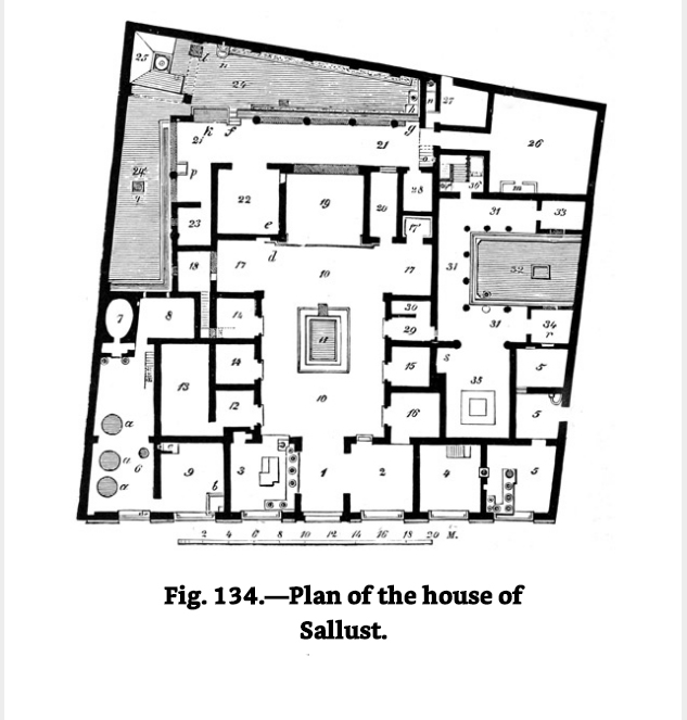 House of Sallust Ground Plan in Mau's Pompeii Its Life and Art